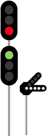 Melbourne Signal with Route Inidcator